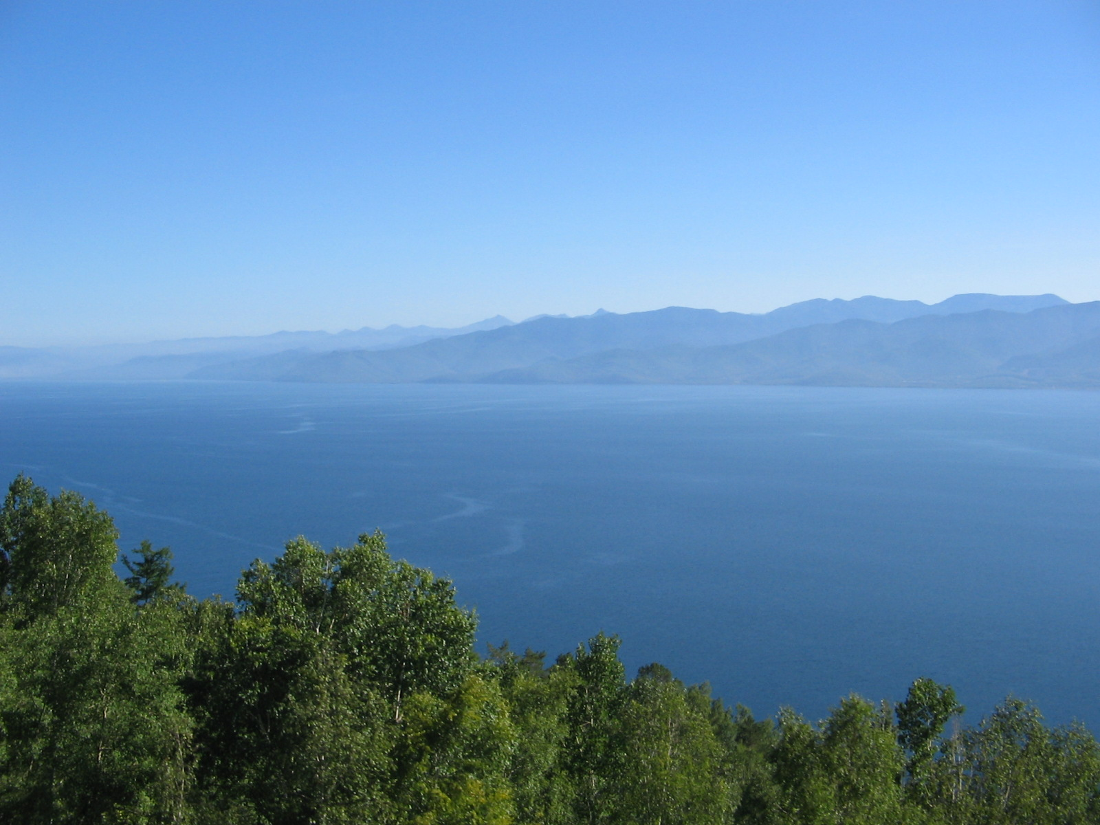 View to the SE of the west Baikal Lake from the Trans-Siberian train near Kultuk